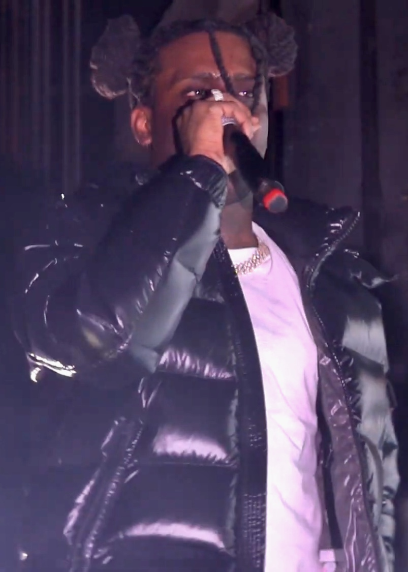 Chief Keef performing his hit single "I Don't Like" in 2019